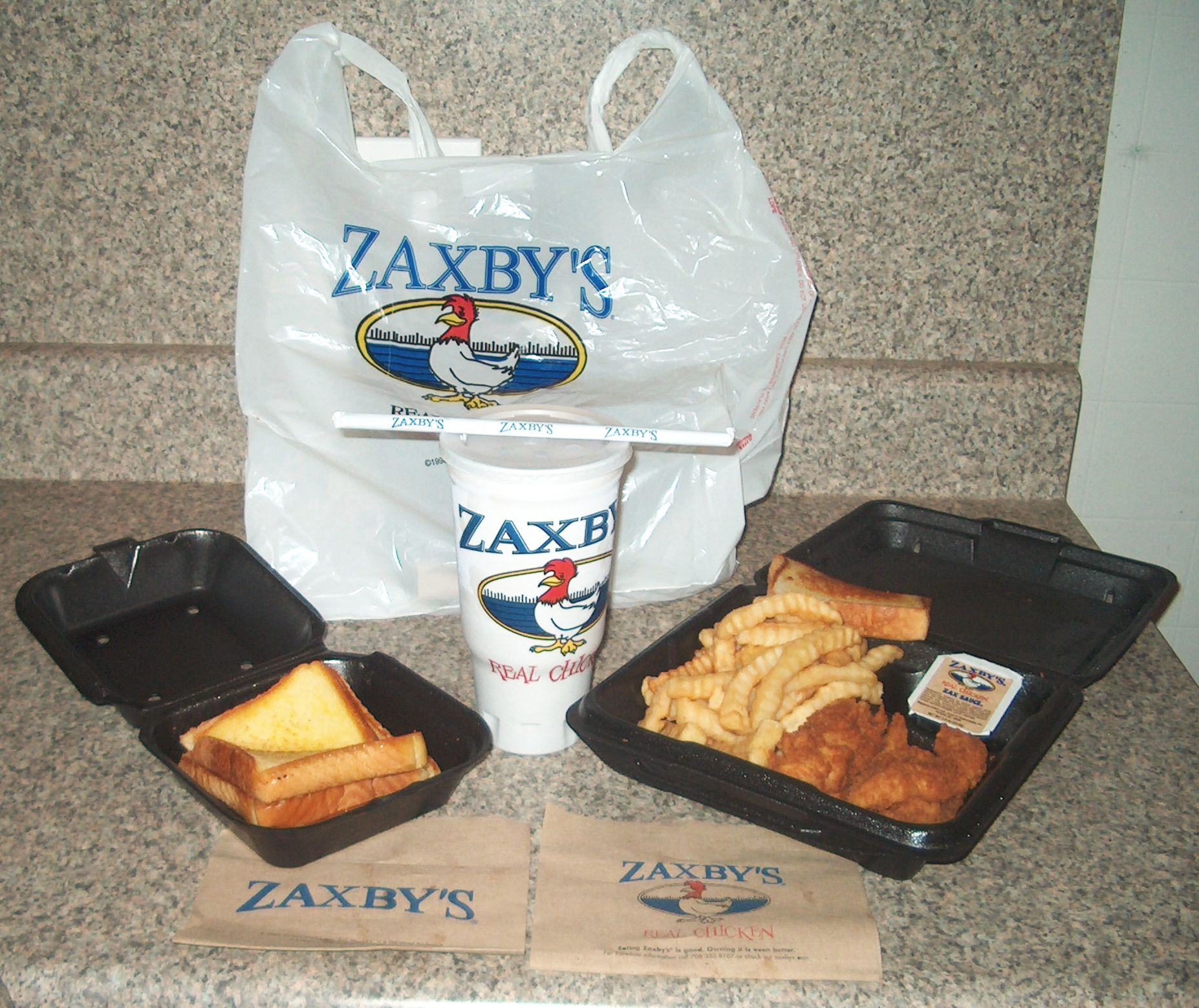 Zaxby's chicken fingers, fries, Texas toast, and cup.